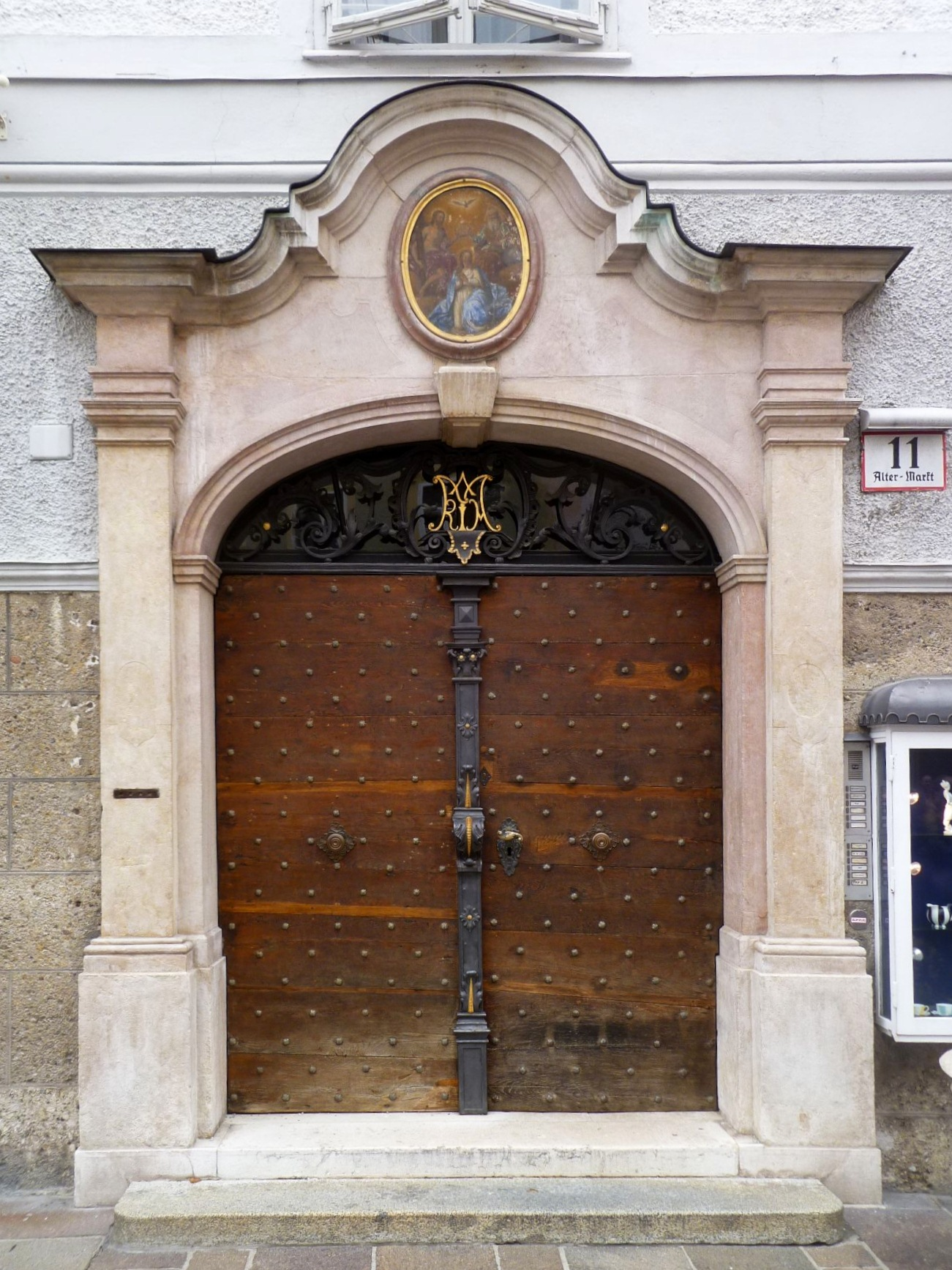 Entrance to building at Alter Markt 11, Salzburg, Austria; former entrance to a pawn office at Makart Square, moved to its present place in 1906.